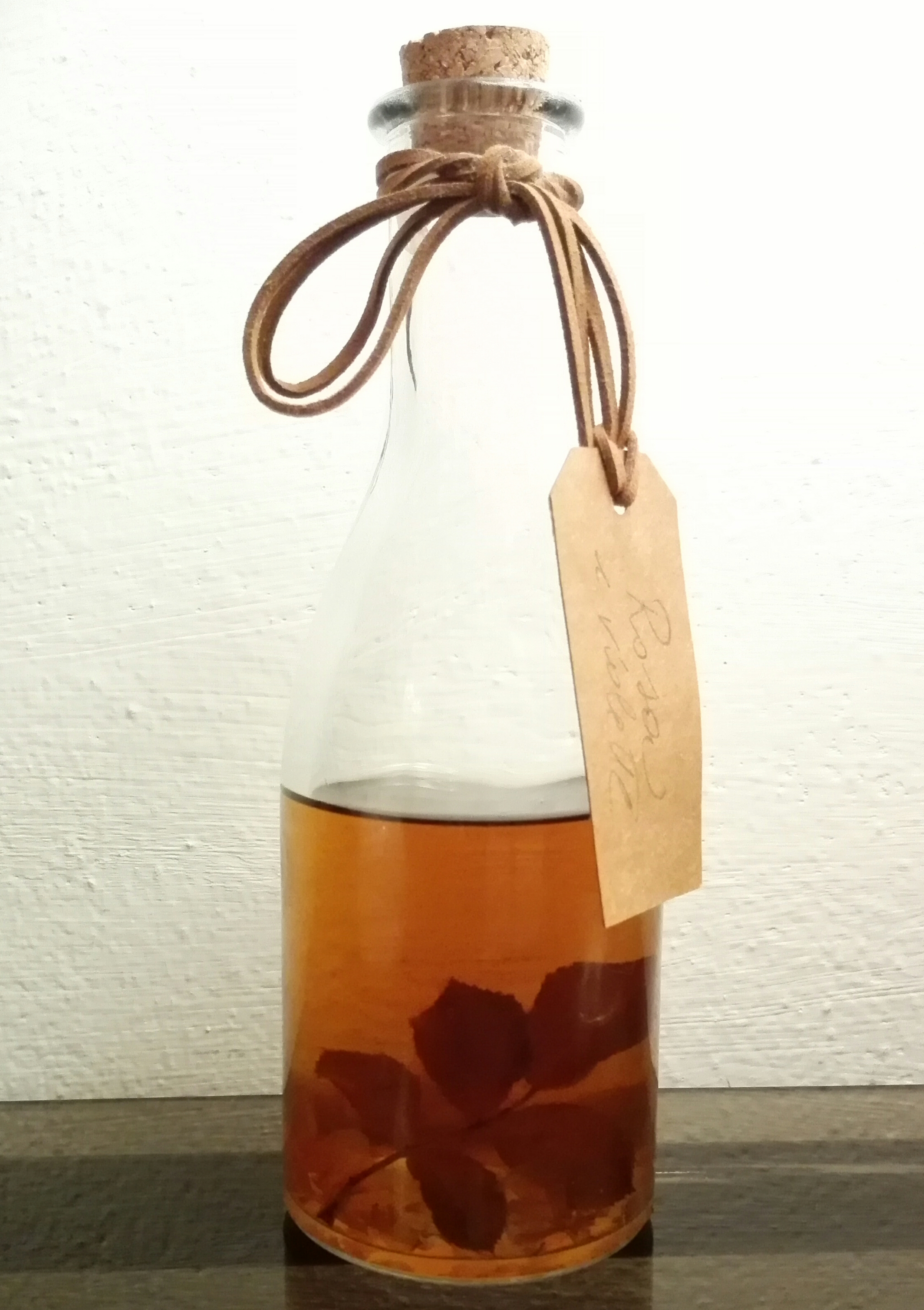 Liquore artigianale alle rose e alle violette.